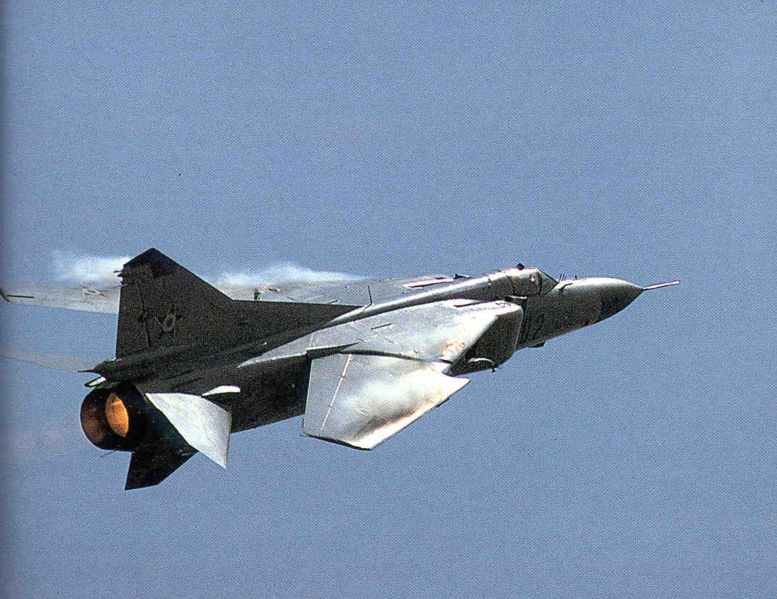 An Egyptian MIG-23 in flight during the Arab-Israeli War. From the booklet "President Nixon and the Role of Intelligence in the 1973 Arab-Israeli War." For more information, visit